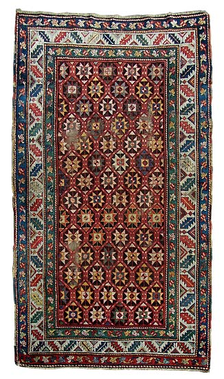 Gendje rug from The Caucasus/Caucasian